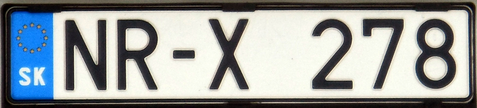 Slovakian license plate for officials